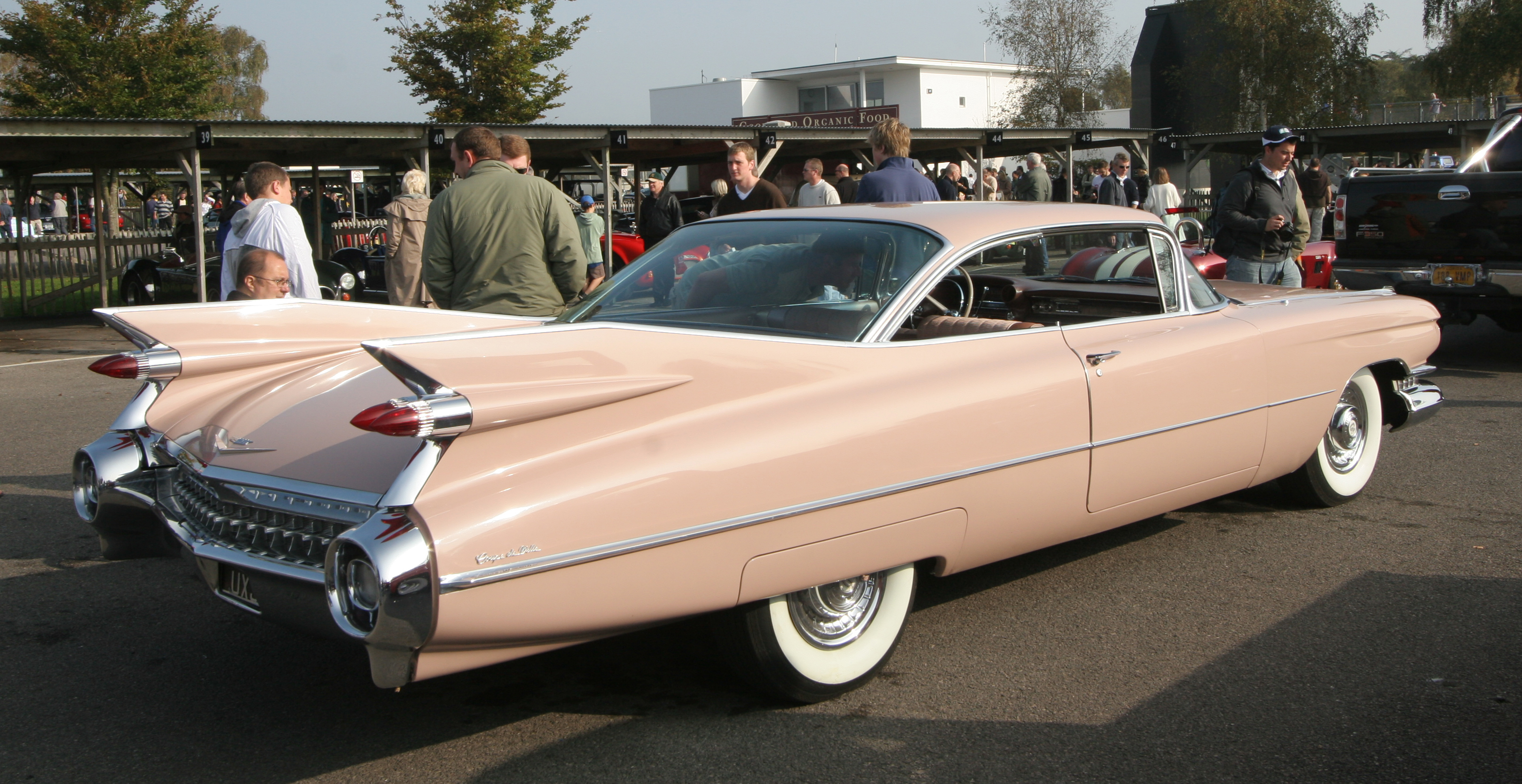 Goodwood Breakfast Club - Cadillac Coupe de Ville 1959